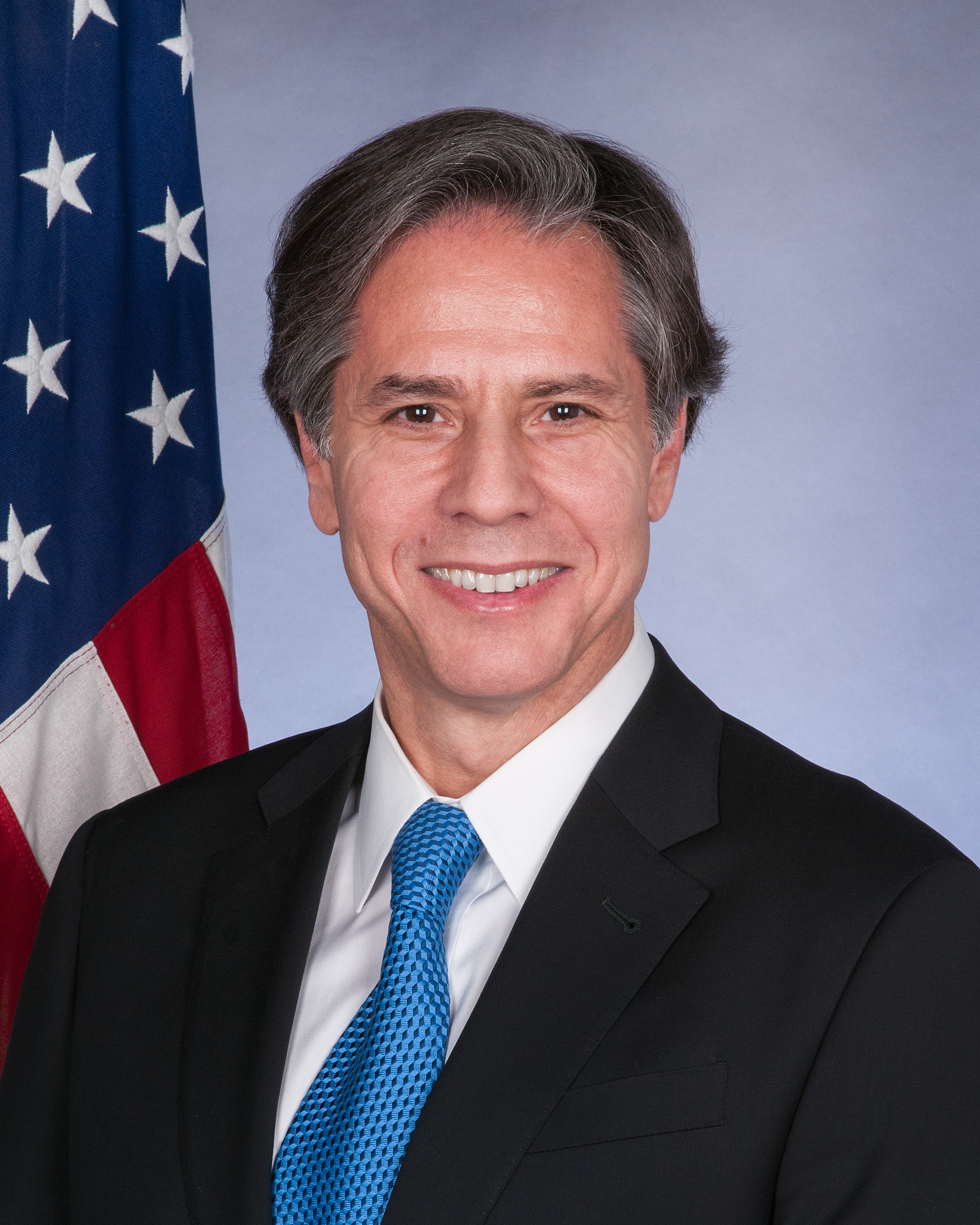 Deputy Secretary of State Antony J. Blinken